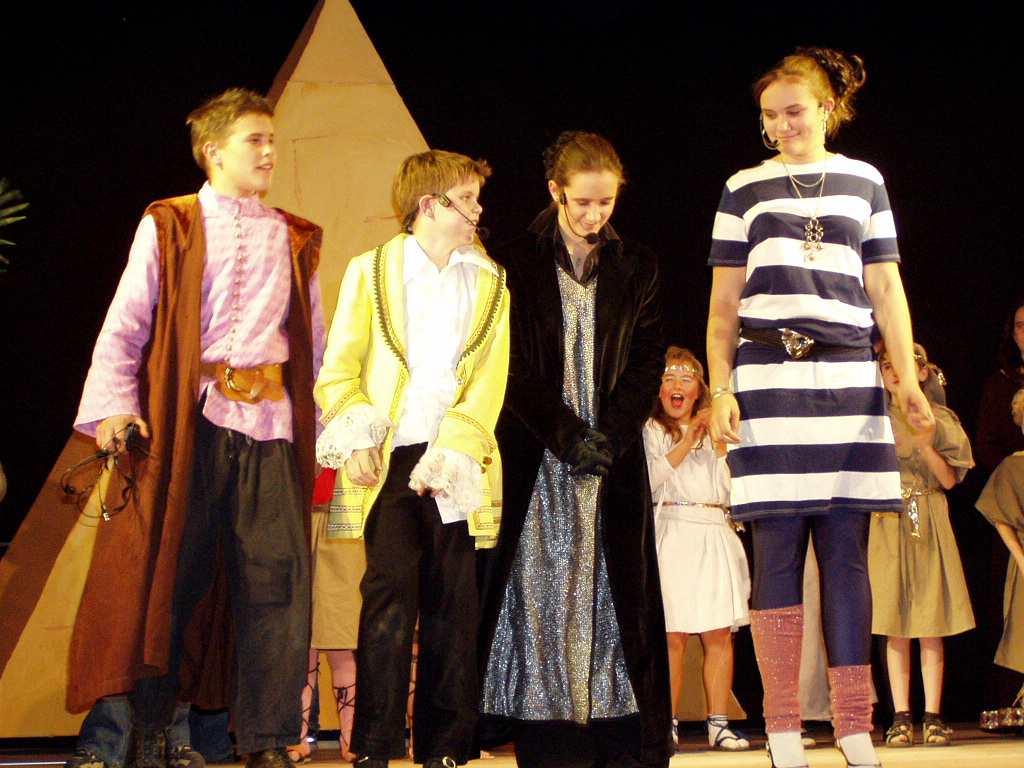 The picture shows the four time-bandits. It was taken at third performance of the musical.